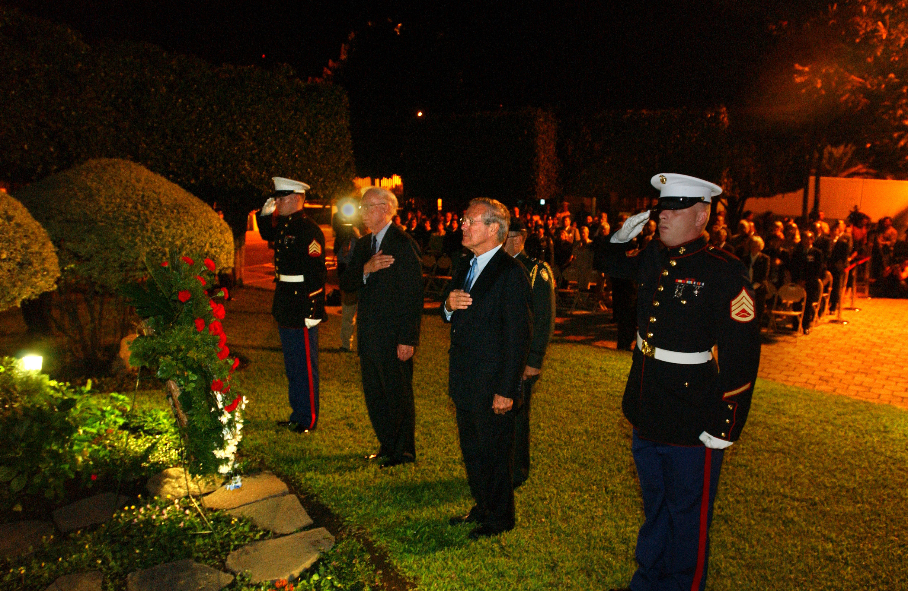 Secretary of Defense Donald H. Rumsfeld (center) and U.S. Ambassador to the Republic of El Salvador H. Douglas Barclay are flanked by U.S. Marines as they salute members of the U.S military killed during the El Salvador civil war at a Veteran's Day ceremony at the United States Embassy in San Salvador, El Salvador, on Nov. 11, 2004. Rumsfeld is in El Salvador to commend them for their steadfastness in Iraq as a coalition partner. Rumsfeld and 33 more defense ministers from throughout the Western Hemisphere will assemble in Quito, Ecuador, on November 15th for the Defense Ministerial of the Americas conference which will focus on strengthening the inter-American security system.